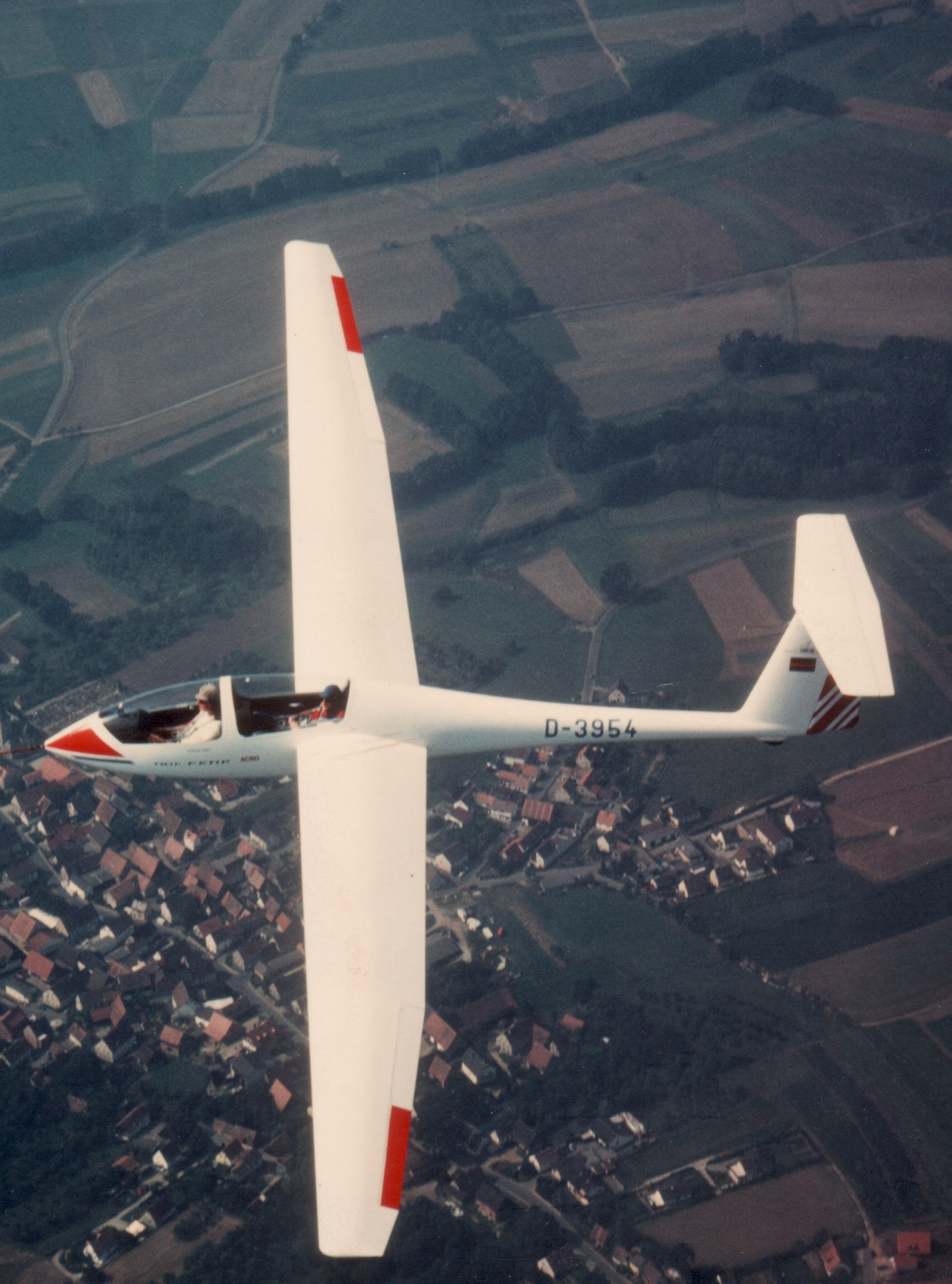 Grob G 103 Twin Astir